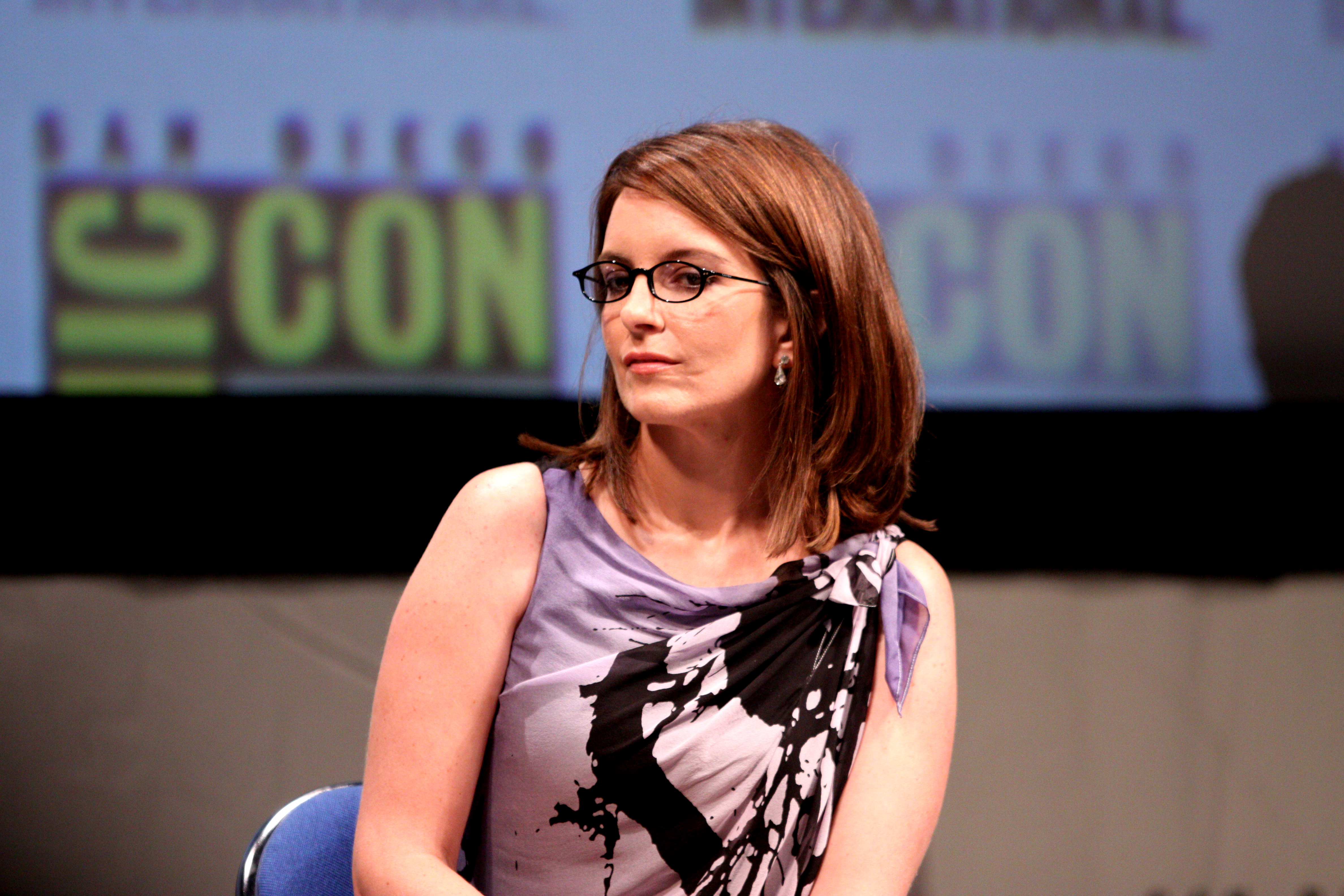 Actress Tina Fey on the MegaMind panel at the 2010 San Diego Comic Con in San Diego, California.